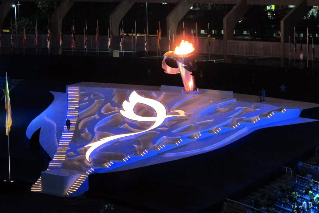 2011 Military World Games opening